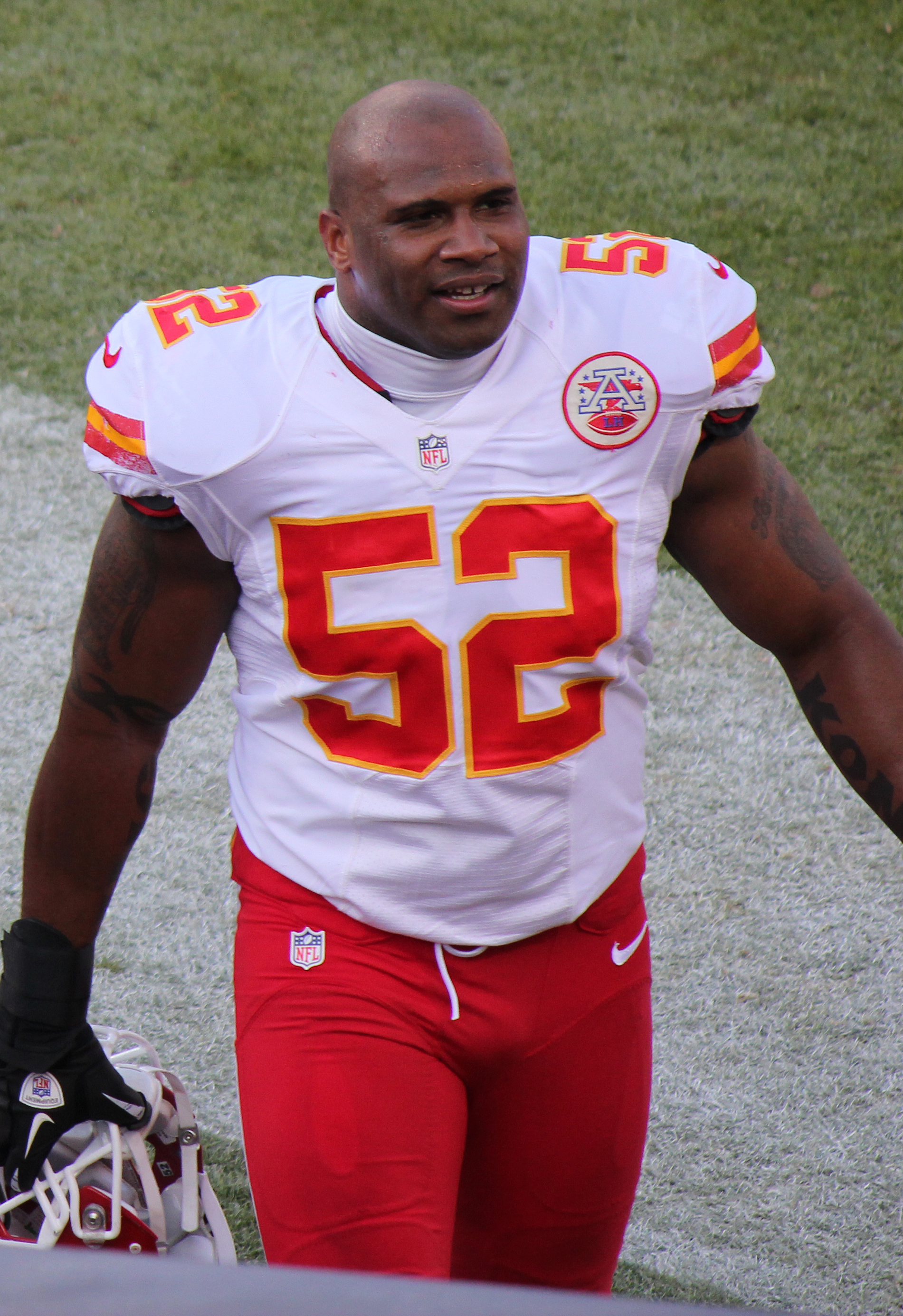 Brandon Siler, a player on the National Football League.